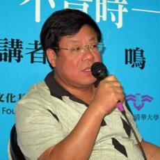 Zhang Ming